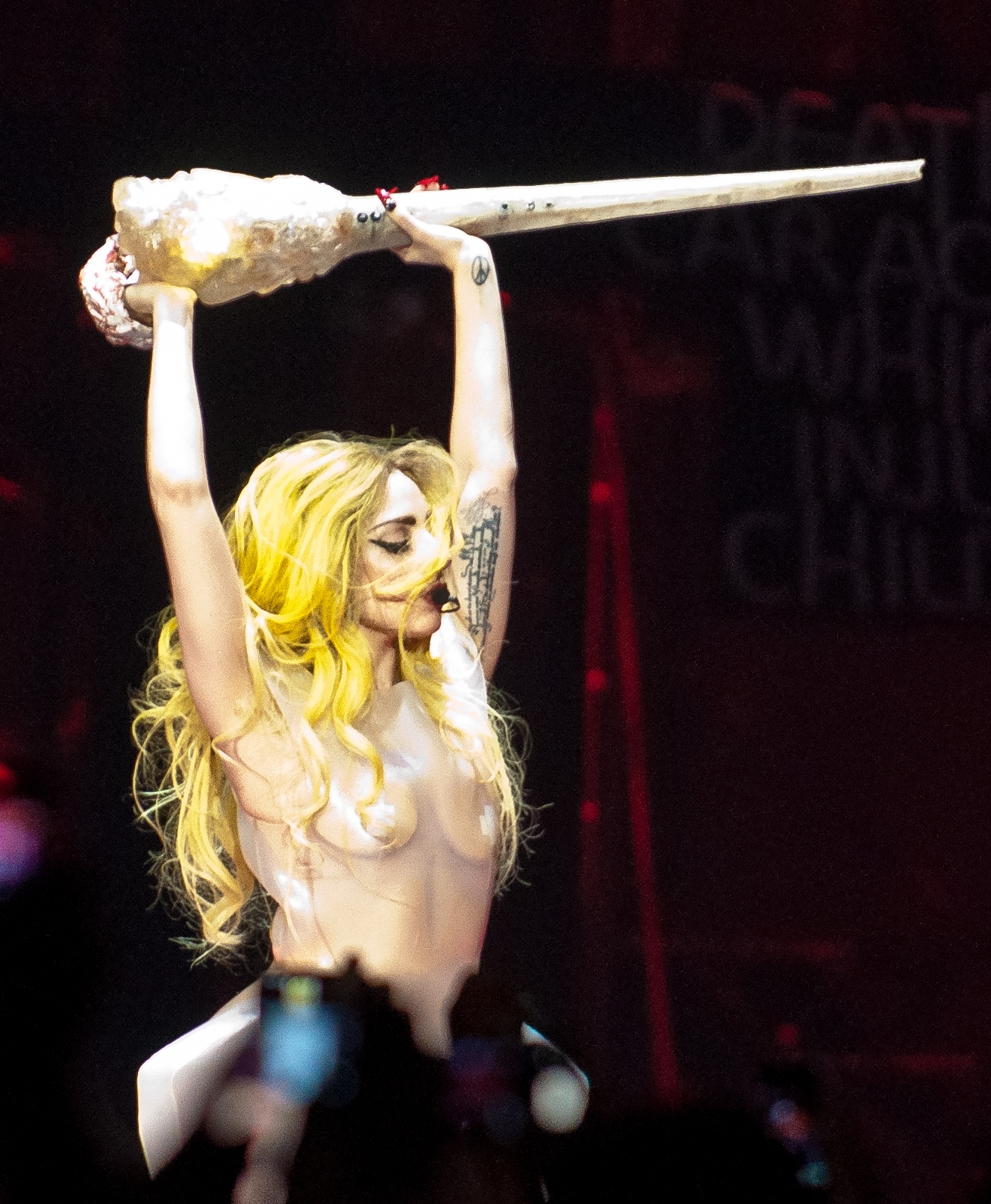 Lady Gaga performing on The Monster Ball Tour in 2011.